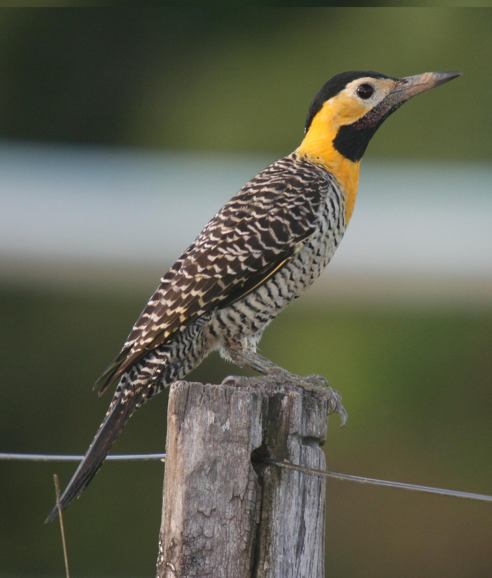 A Campo Flicker in the cerrado of Goiás, Brazil.